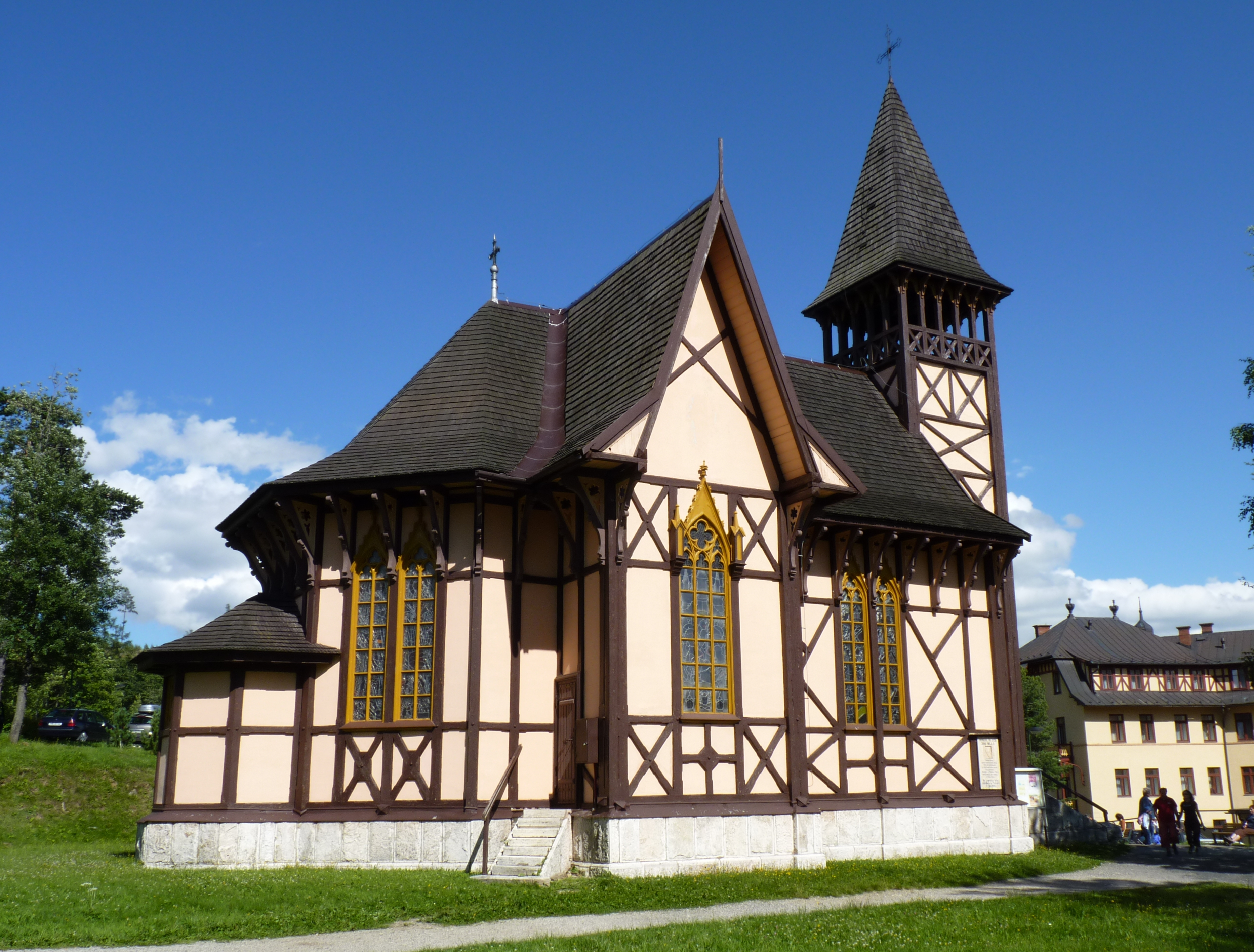 Starý Smokovec. Tatra Mountains, Slovakia